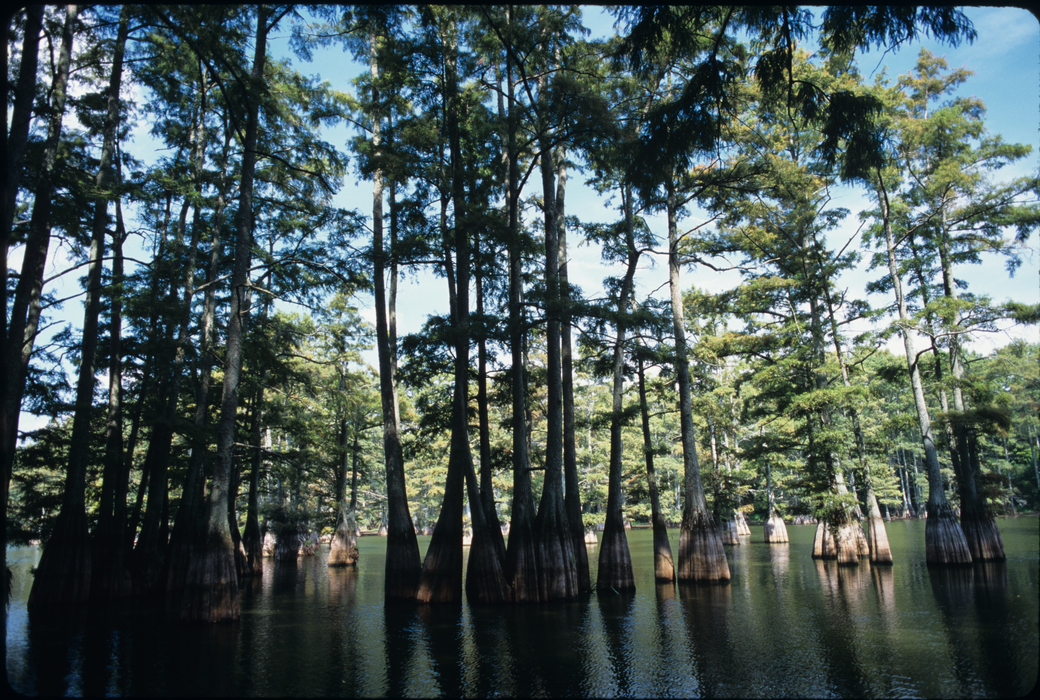 The sun shines through the trees at the Big Thicket National Preserve in late August 1996. The preserve is located just north of Houston and Beaumont, TX and has historically been home to dense woodlands in the state. The Big Thicket was mostly uninhabited until heavy settlement from the U.S. began in the mid-19th century, and was even used as a refuge by runaway slaves and other fugitives. USDA photo by Larry Rana.